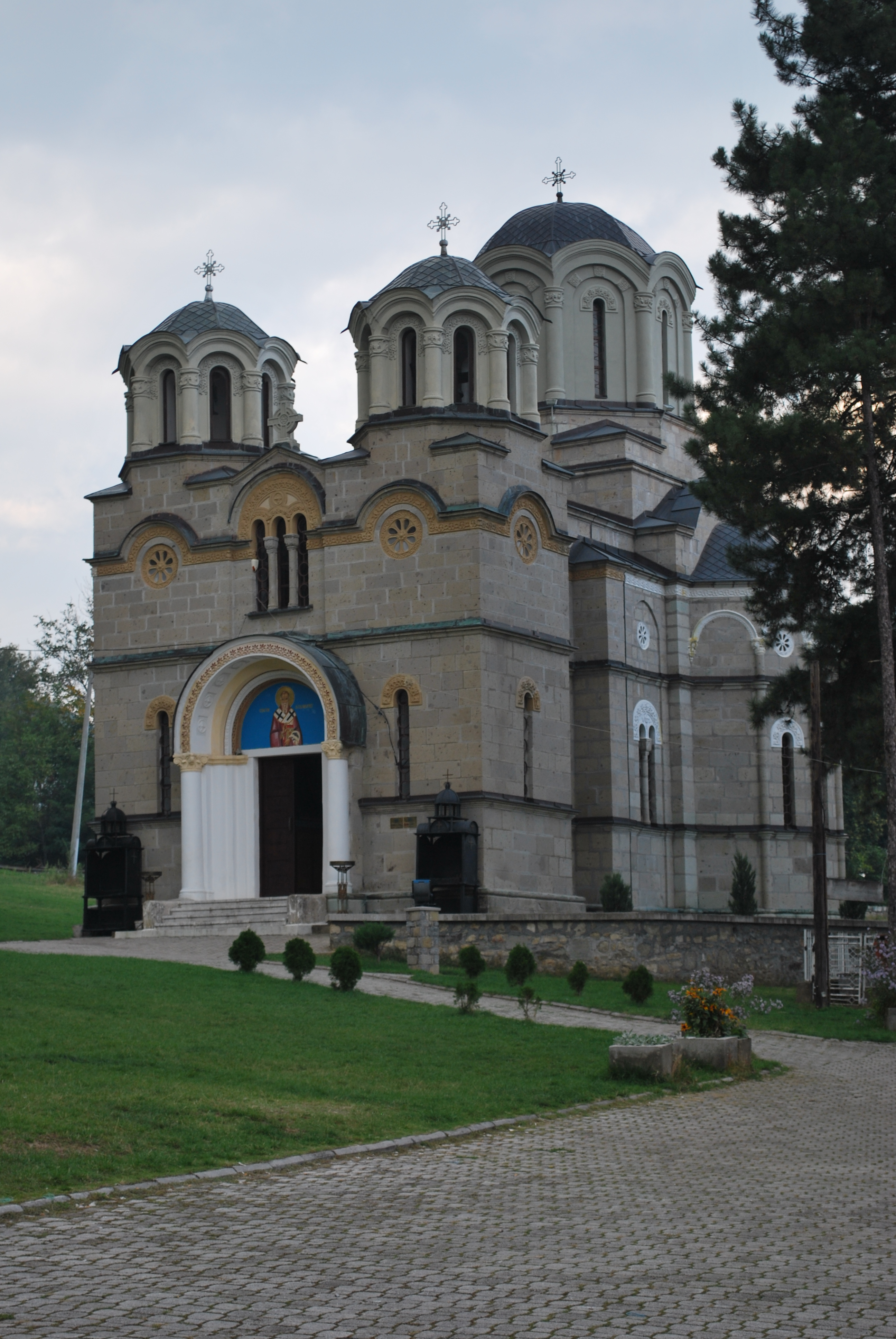 Lešok Monastery, Macedonia This image is uploaded as part of the picture contest Wiki Loves Cultural Heritage in Macedonia 2013. English | македонски | +/−